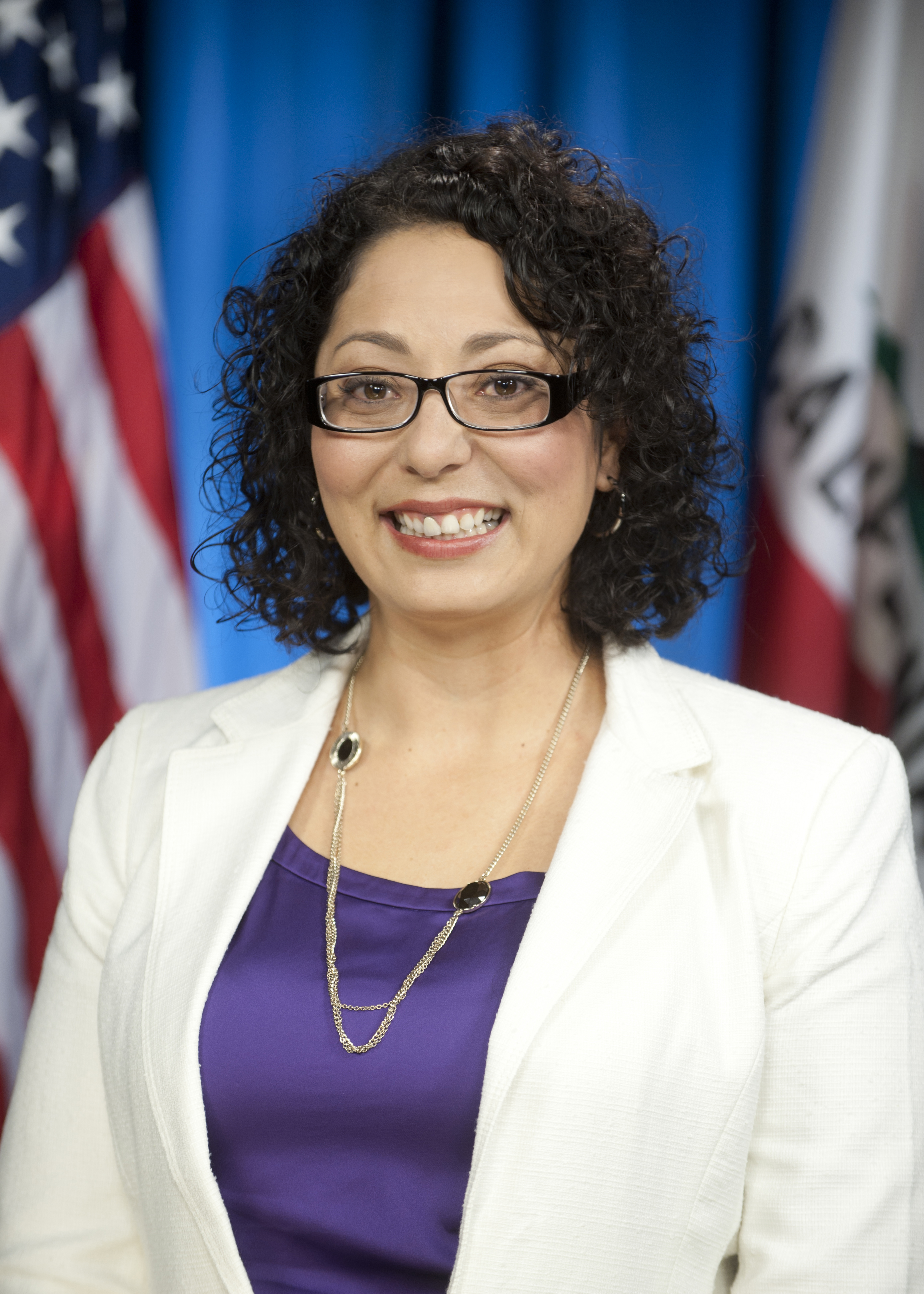 Assemblywoman Cristina Garcia